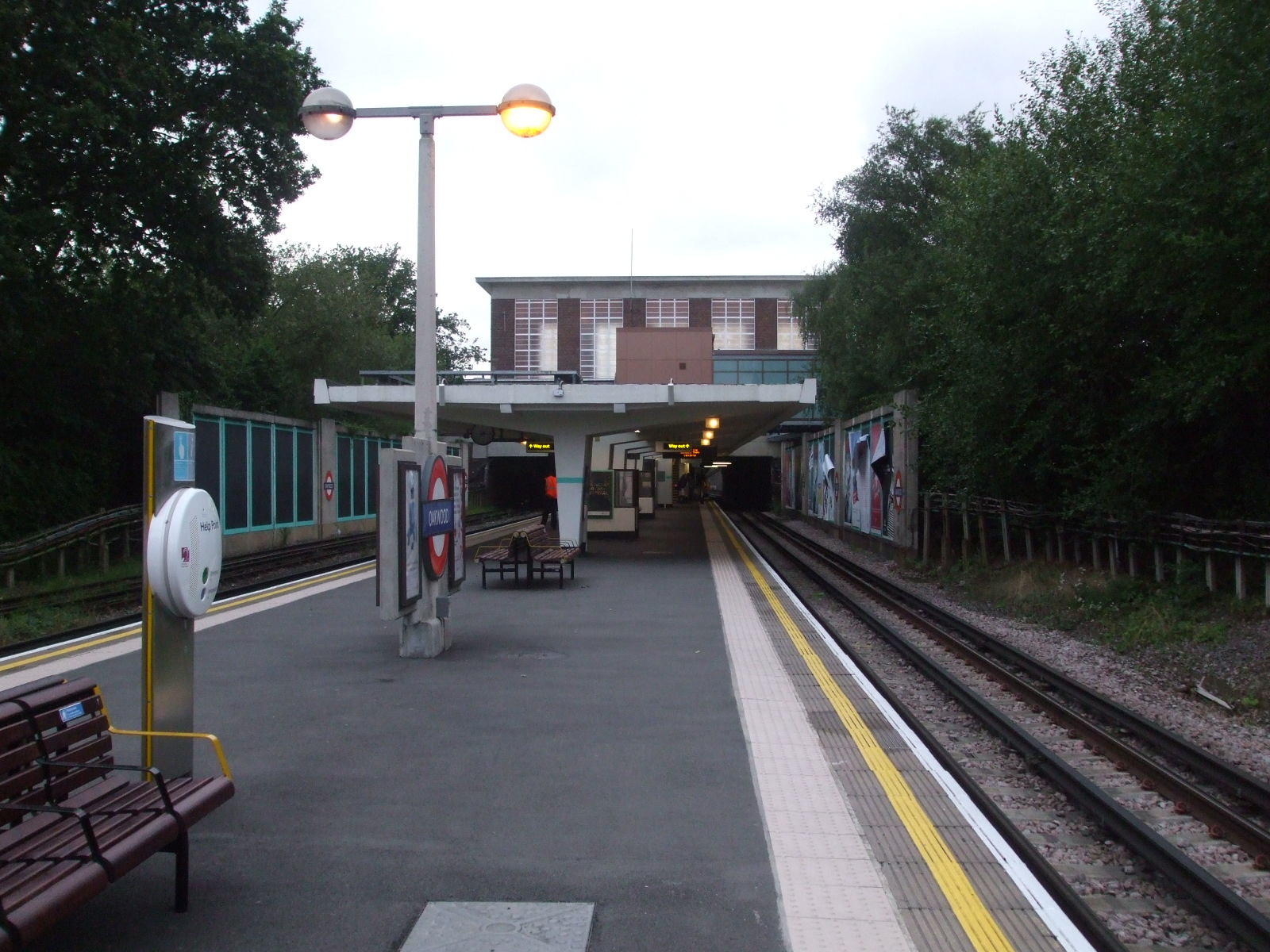 Oakwood tube station looking "east" (north here). Visible on the left is a siding from Cockfosters depot to the north